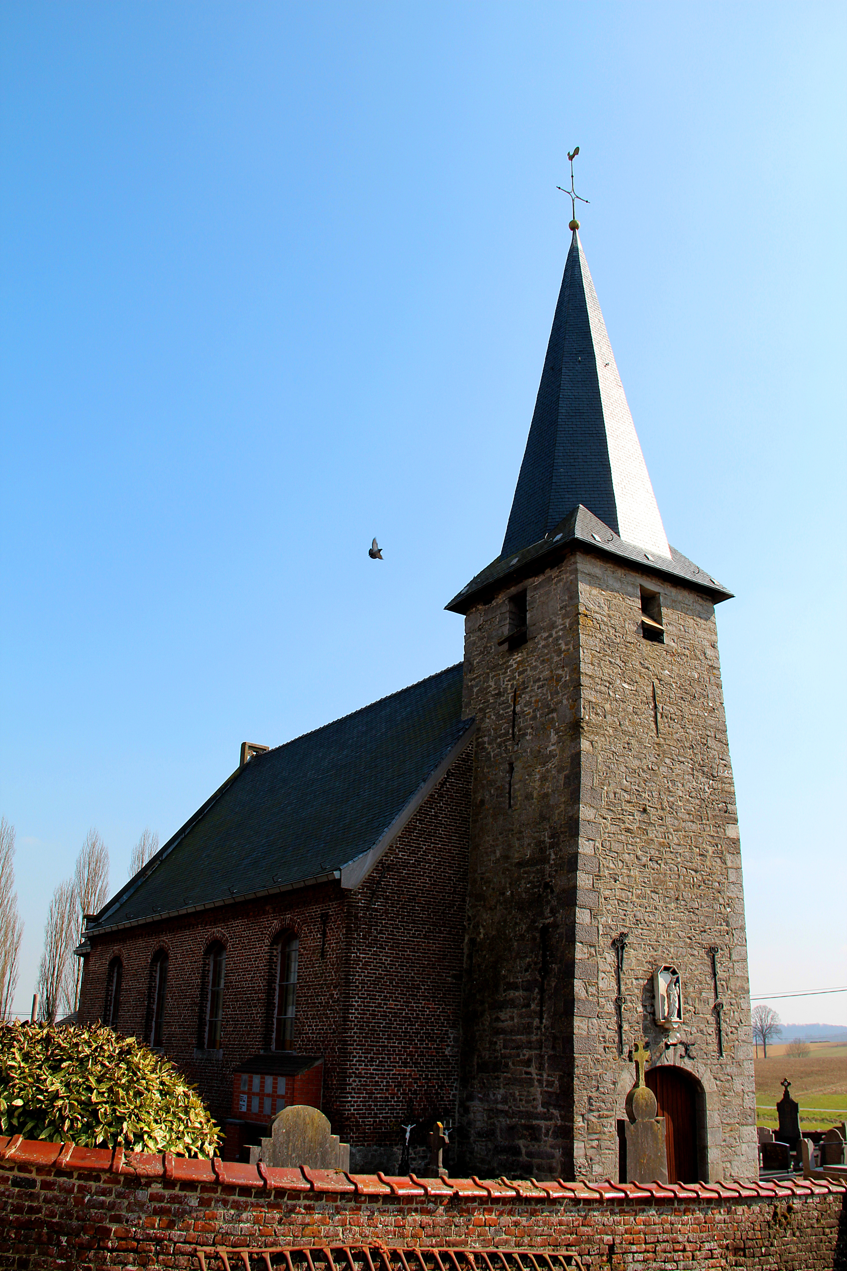 Quartes (Belgium), the Martin's church.